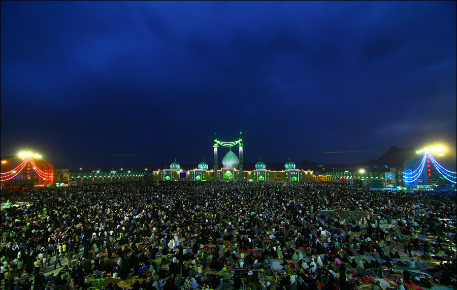 The Courtyard of Jamkaran is full of people in Mid-Sha'ban